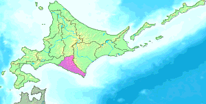 The map of Hidaka Subpref in Hokkaido, Japan.